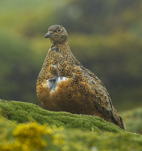 Rufous-bellied Seedsnipe - Papallacta - Ecuador_S4E3460